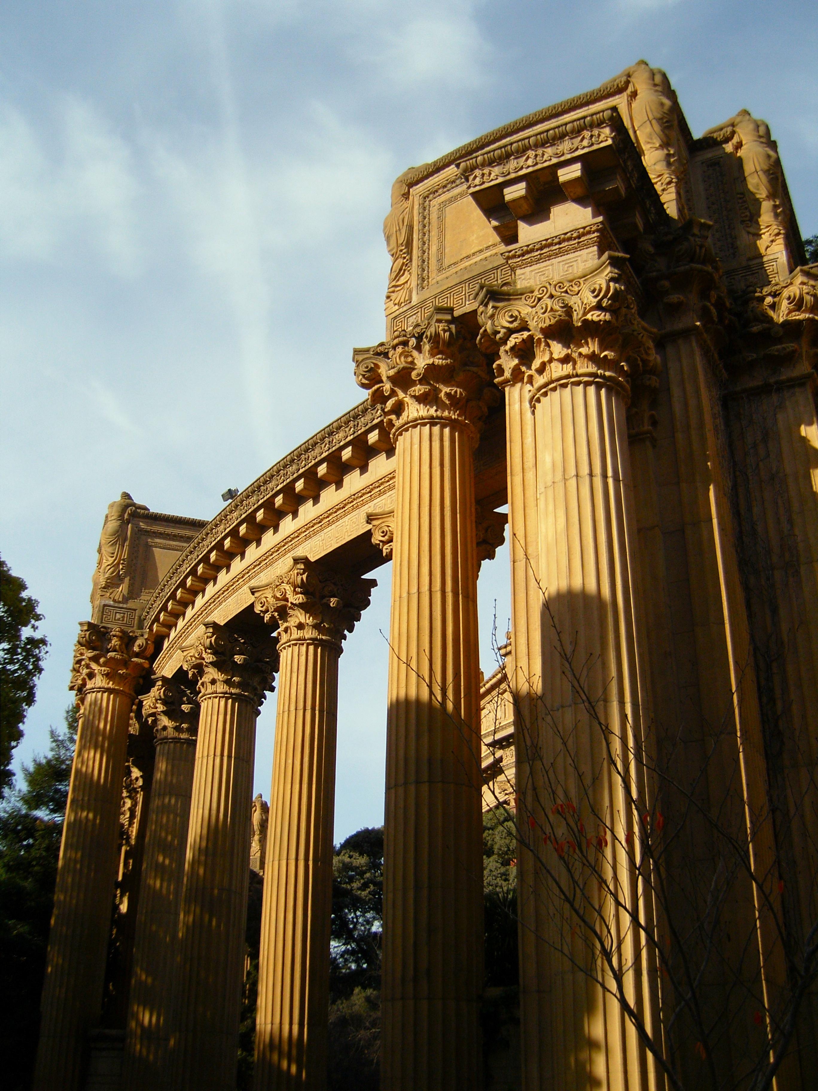 Palace of Fine Arts Walkways, San Francisco, California.